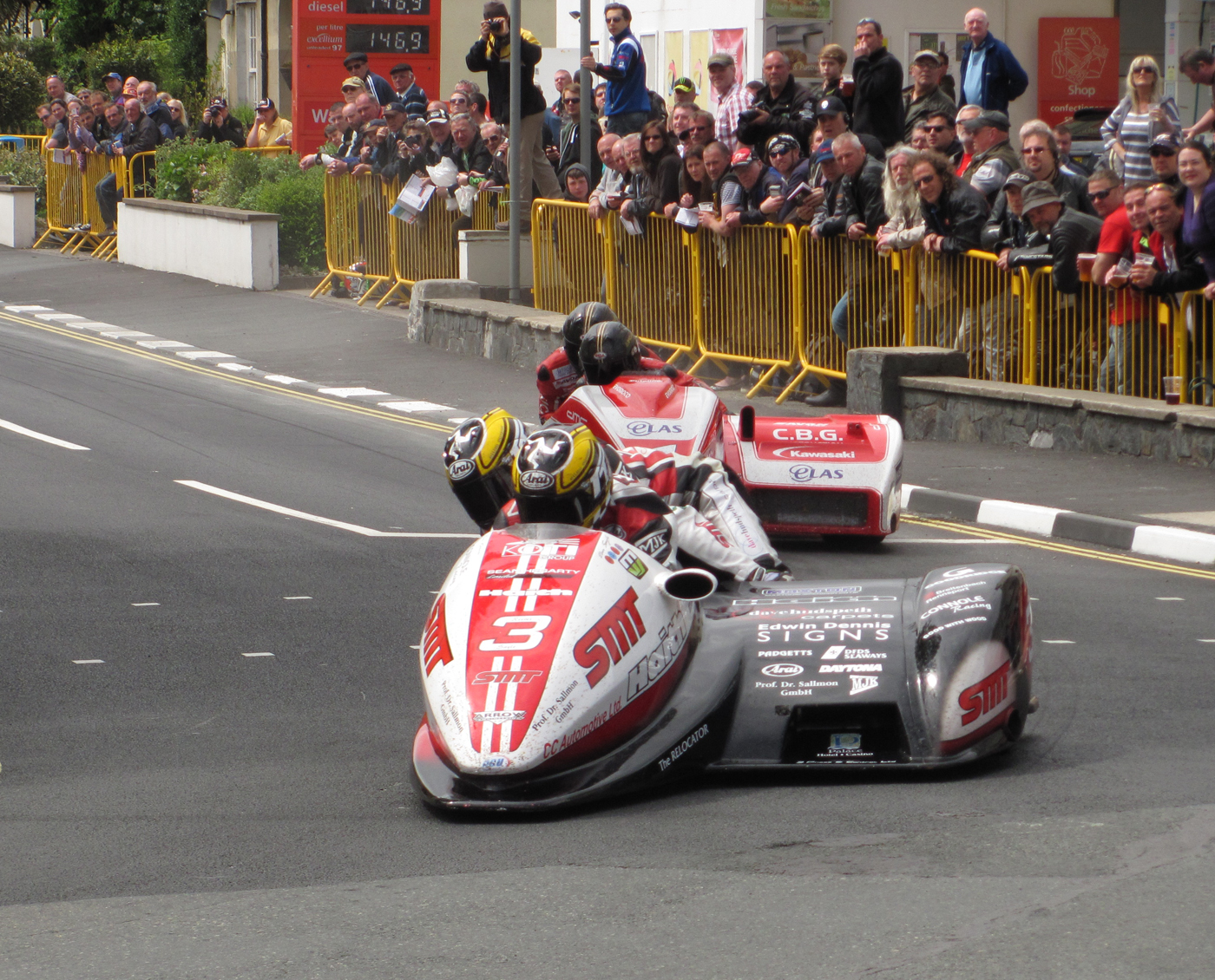 Sidecar Race 1, Lap 3 during the 2013 Isle of Man TT.